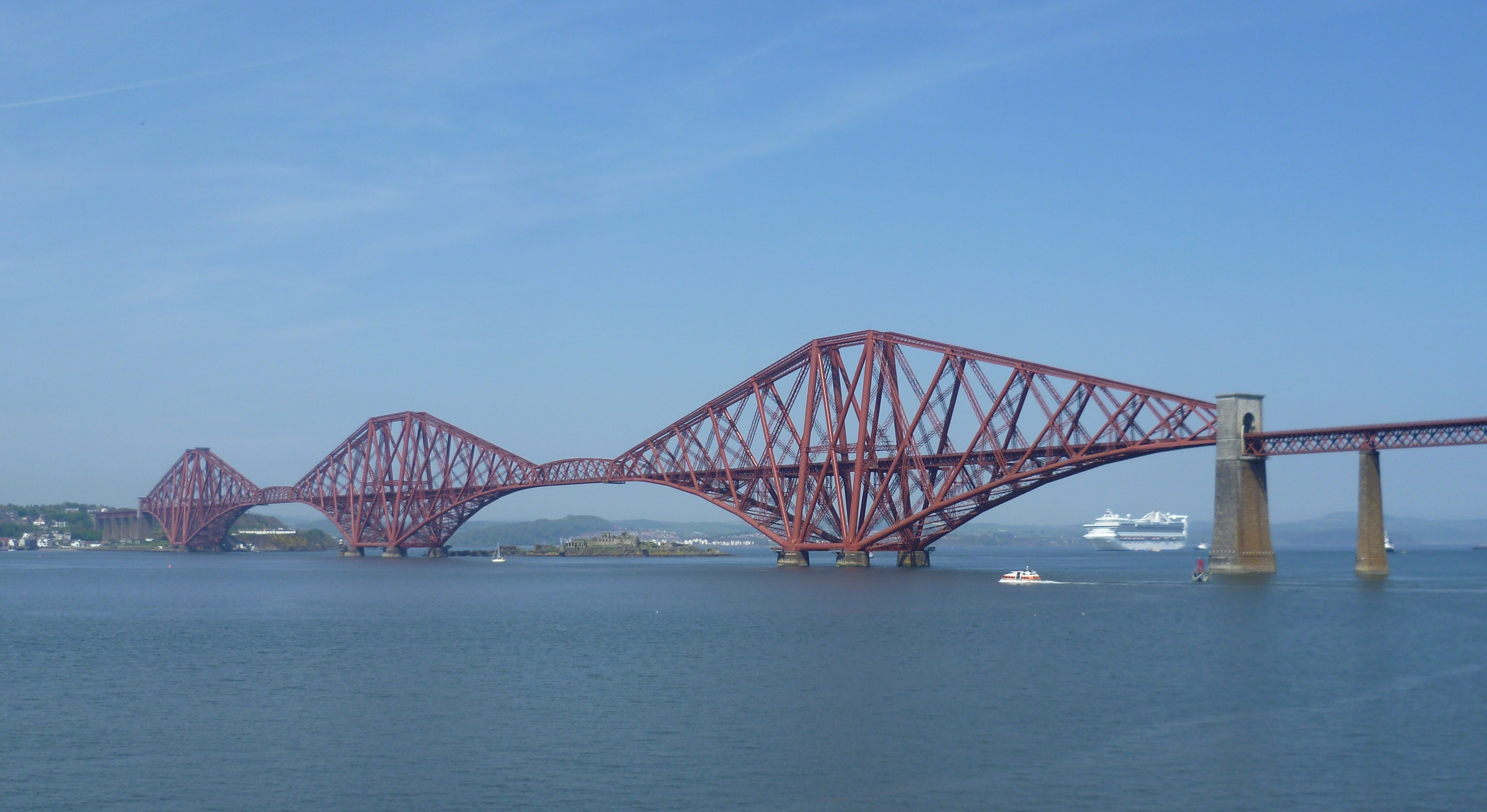 The Forth Bridge seen from South Queensferry. The cruise ship Caribbean Princess is berthed close to the bridge.